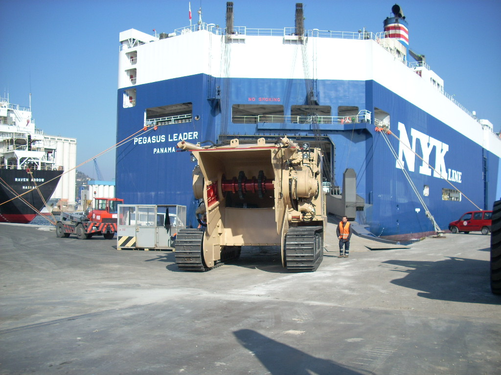 Pegasus Leader